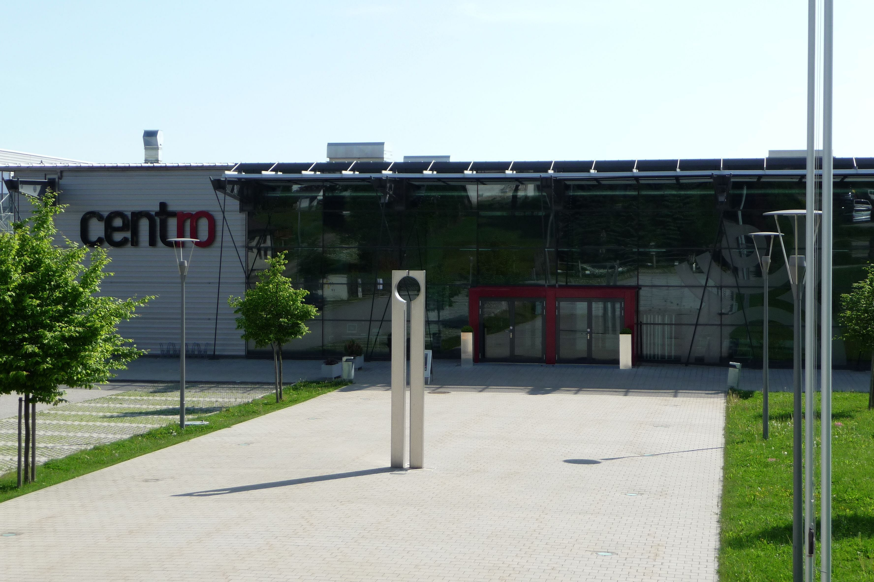 Centro in Rohrbach Upper Austria